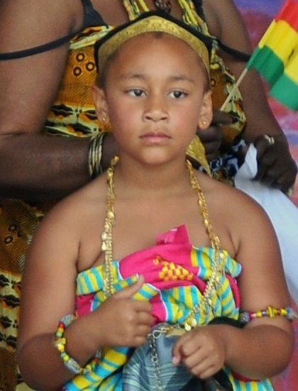 Ashanti girl dancing cultural Akan Dance, Surrey Fusion Festival 2010 The Surrey Fusion Festival was an free outdoor event on 17th-18th July 2010 in the town of Surrey in the province British Columbia of Canada.